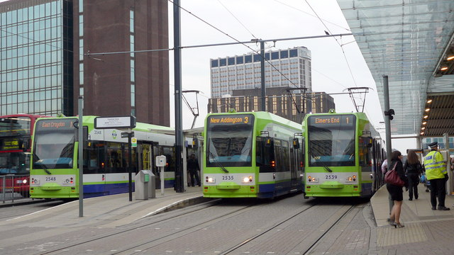 Changing Times (2) February 2009, and another rare line-up of three trams at East Croydon. The trams in this photograph were in the new Transport for London livery.